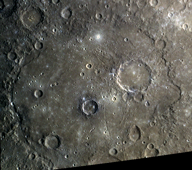 Crater Beethoven on Mercury. Photo of MESSENGER spacecraft. April 21, 2011. Cropped from larger image.